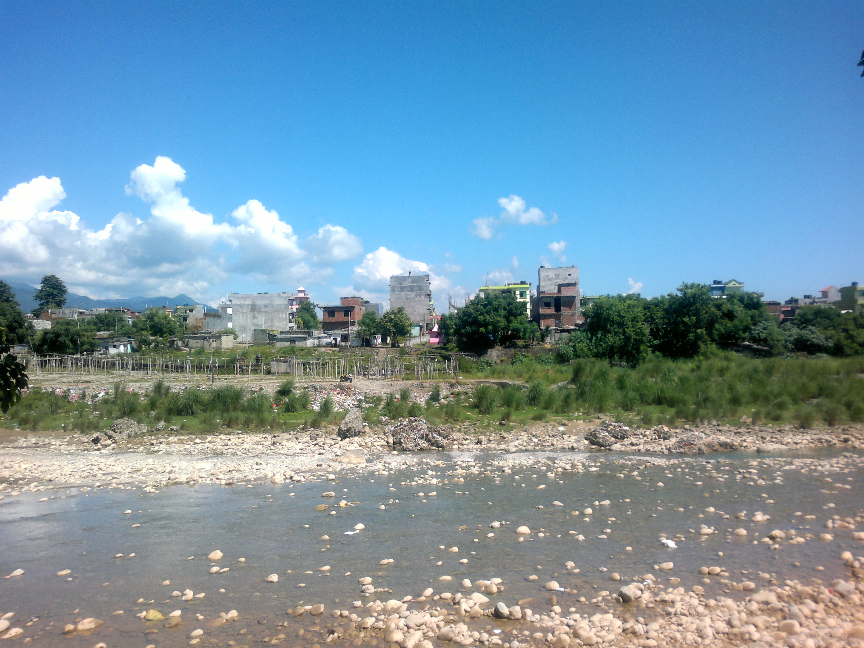 Butwal city and Tinau river near Devinagar area